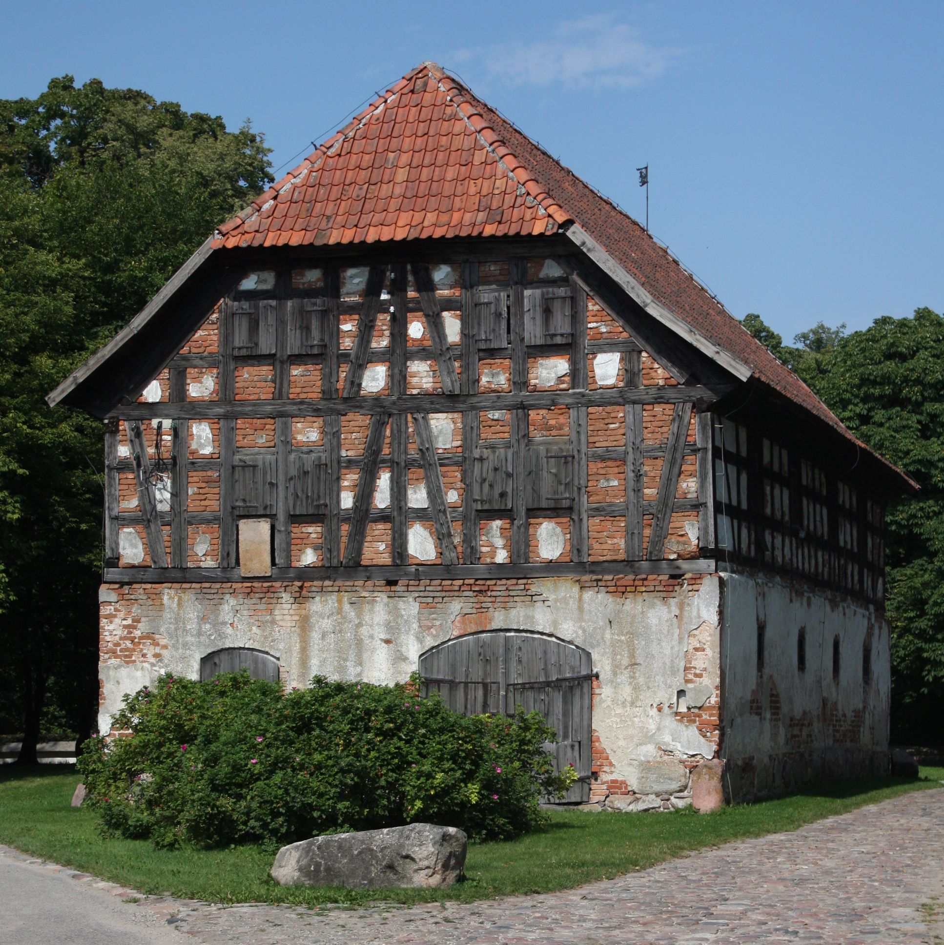 This photo of Warmian-Masurian Voivodeship was taken during Wikiexpedition 2012 set up by Wikimedia Polska Association. You can see all photographs in category Wikiekspedycja 2012. The making of this document was supported by Wikimedia Polska.